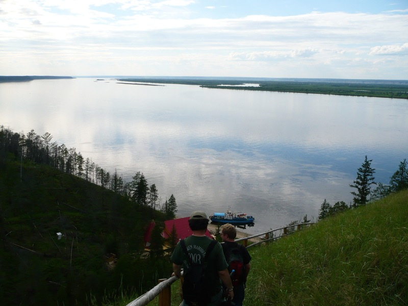 Lena River near Yakutsk, Sakha, Siberia